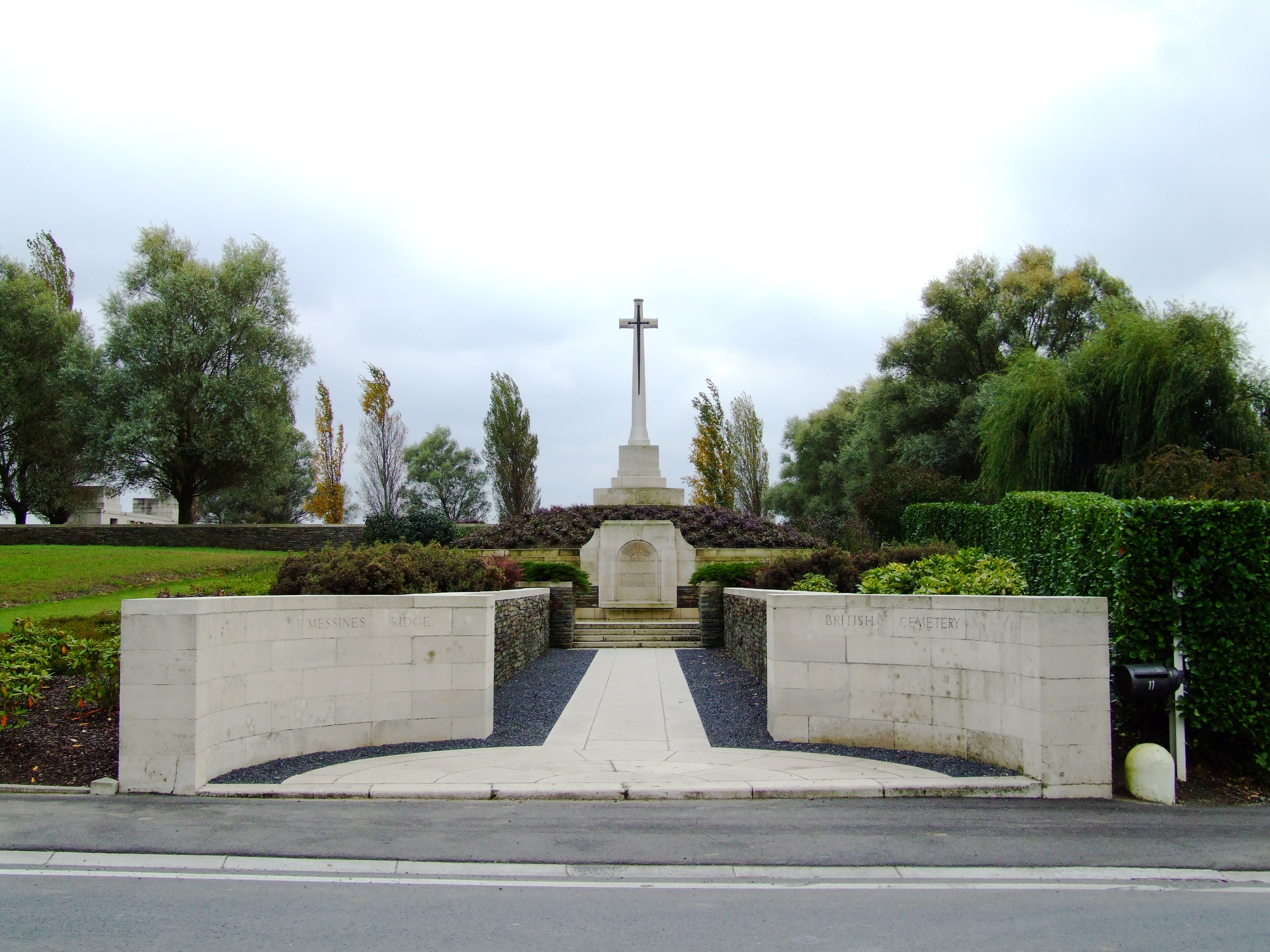 Messines Ridge Memorial to the Missing, maintained by the Commonwealth War Graves Commission